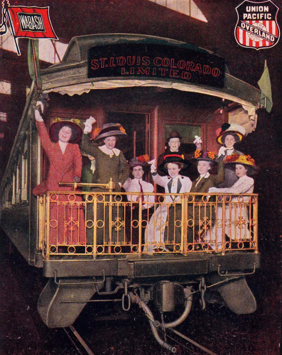 Postcard photo of passengers on the observation car of the Wabash-Union Pacific Railroad's St. Louis-Colorado Limited train. They appear to be leaving St. Louis for Colorado.